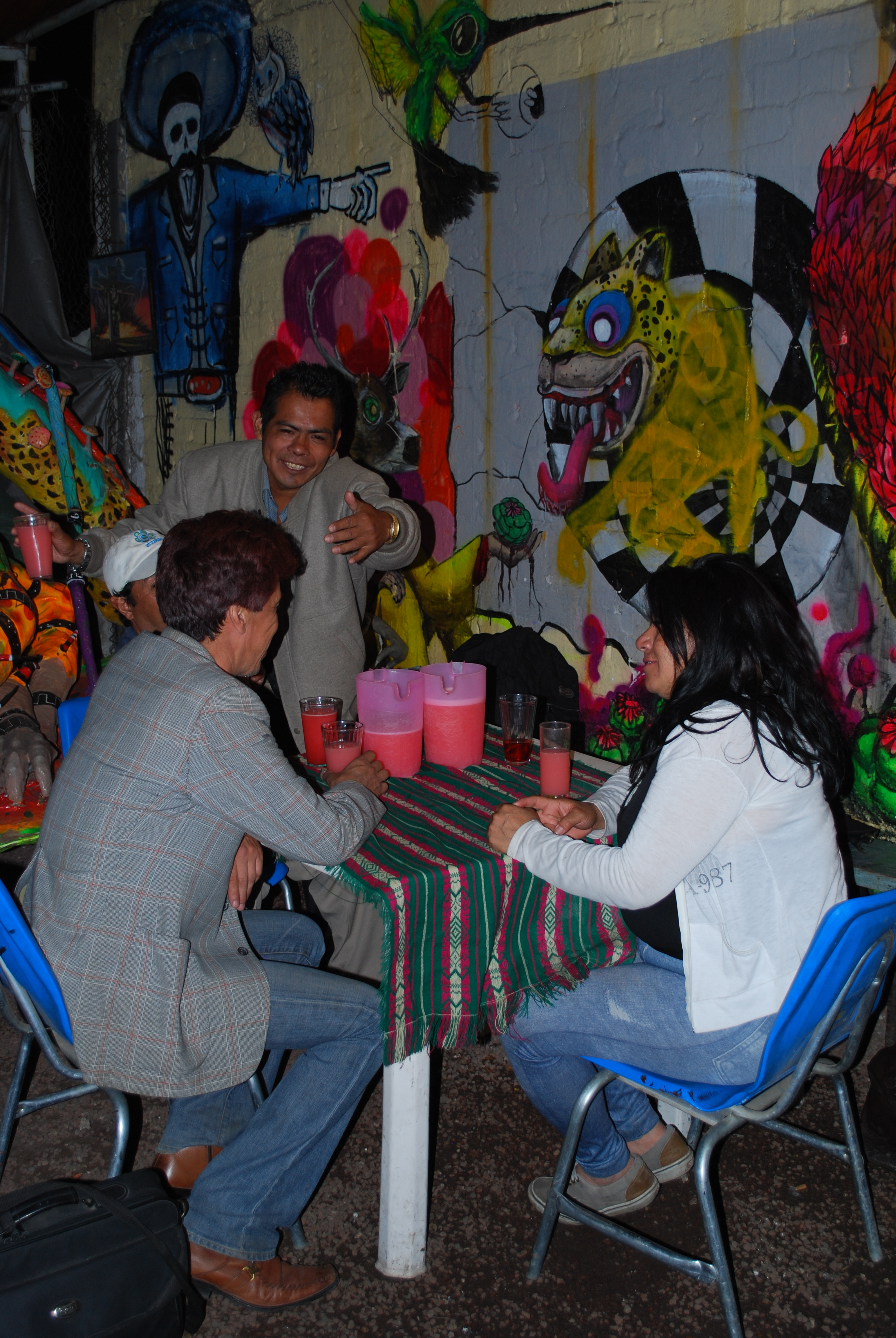 Customers at the Pulqueria Tecolote in Santa Marta Acatitlan, Mexico City